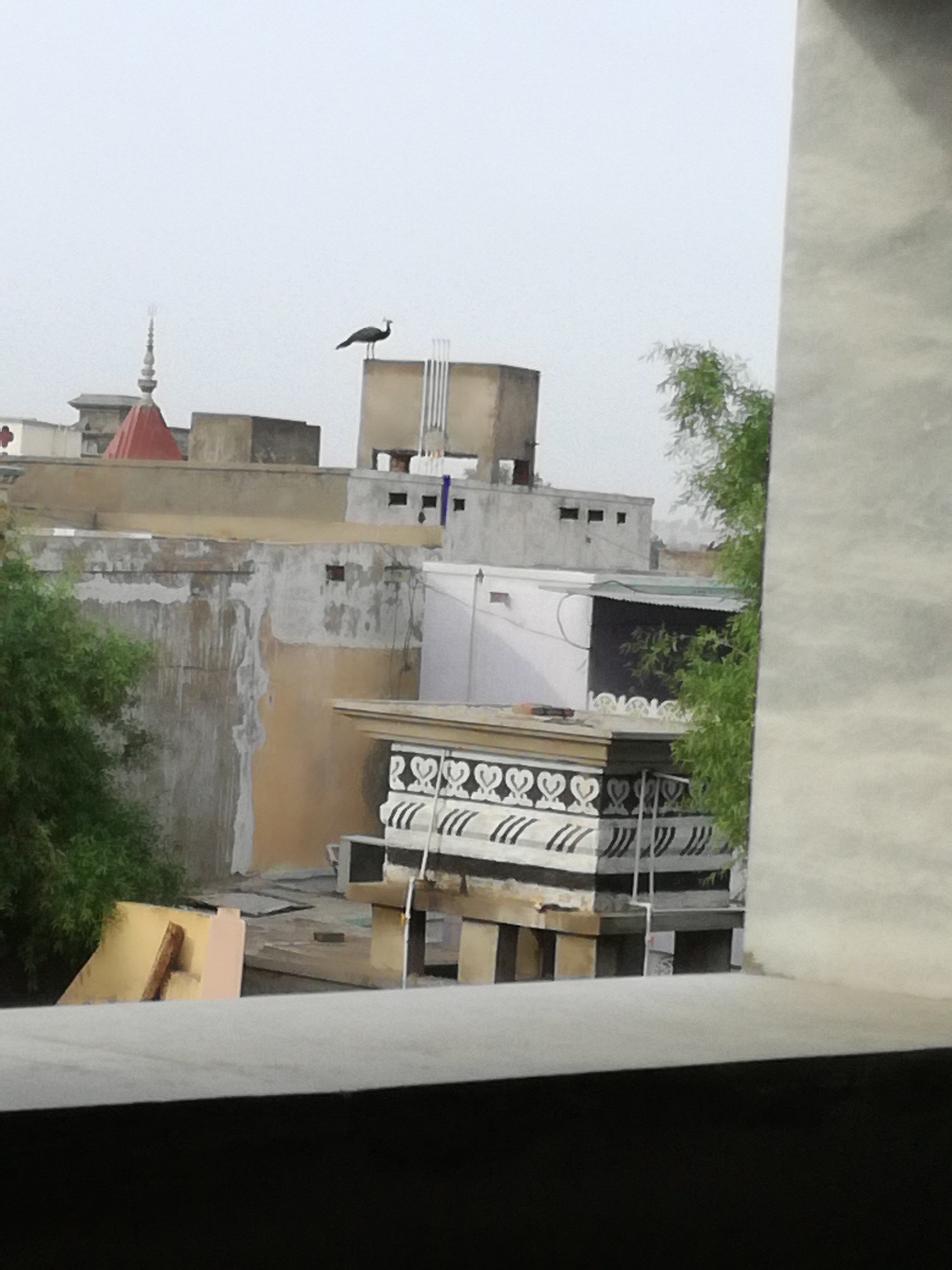 A view from a house window of a peafowl sitting on water tank (top of a house) in Tharparkar district, Pakistan